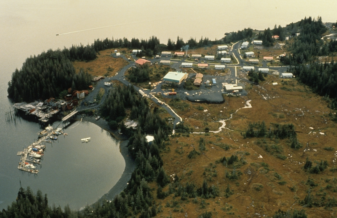 Verso caption: Aerial of Chenega Bay Village and boat harbor - Chenega Bay, Evans lsland (Prince William Sound). Close-up aerial view of Chenega, Alaska as it appeared in 1989.